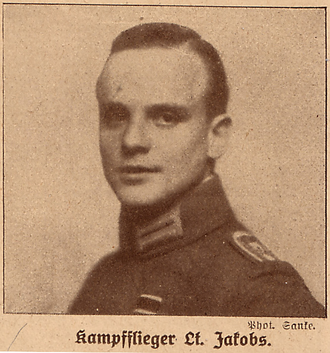 German Lieutenant Josef Jacobs (fighter ace of WW1)